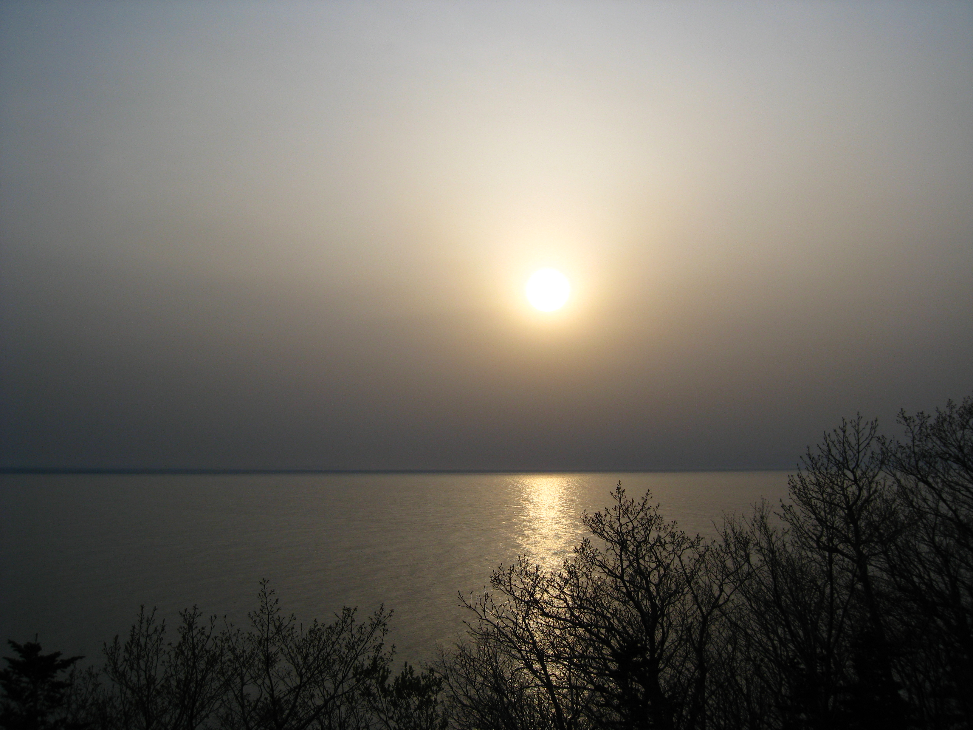 Sunset at Utoro, Hokkaido, Japan